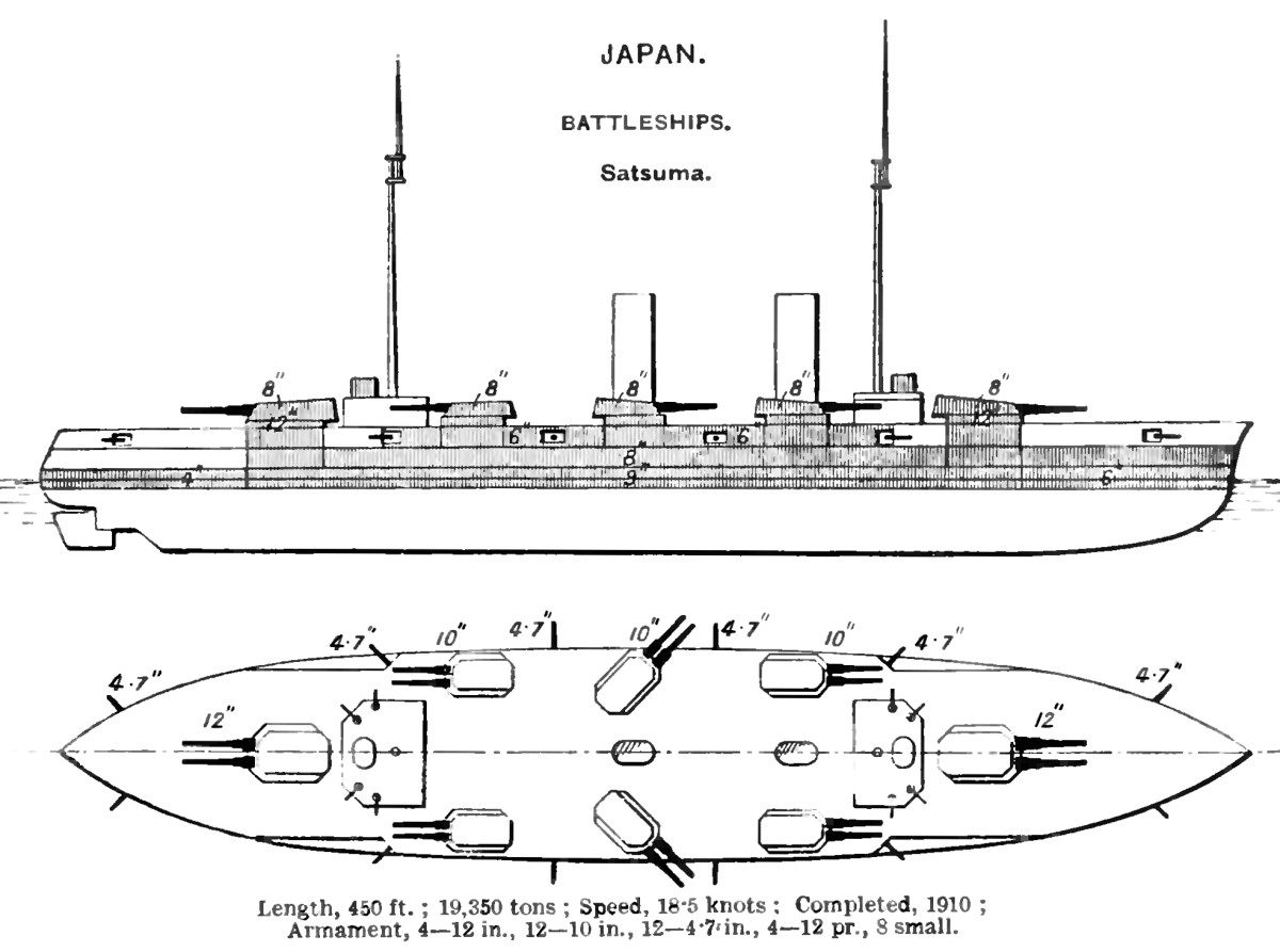 Right elevation and deck plan diagrams depicting Japanese battleship Satsuma. Numbers on top diagram show armour thickness (shaded areas) in inches. Numbers on bottom diagram show size of guns in inches.